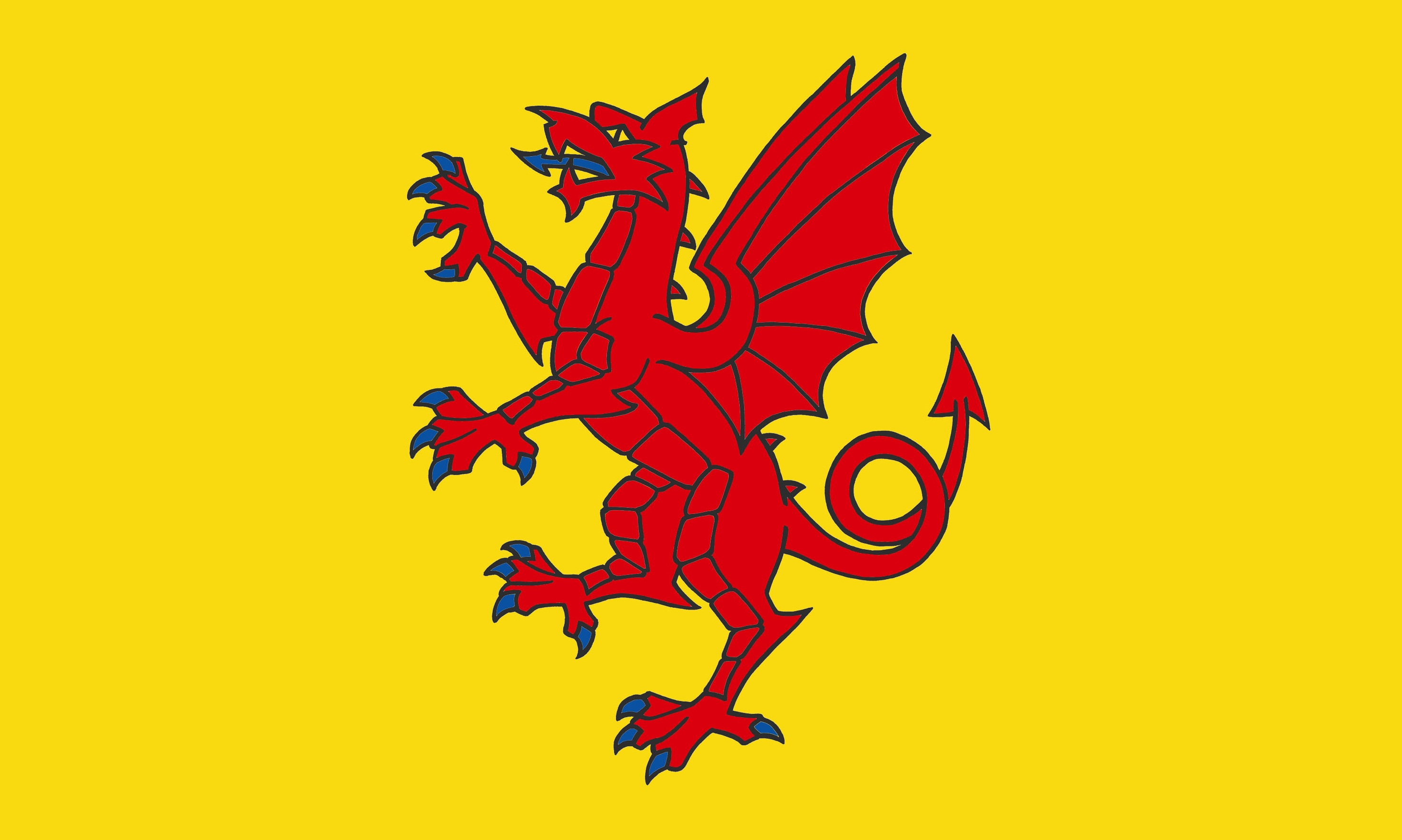 New realisation of proposed Somerset flag.